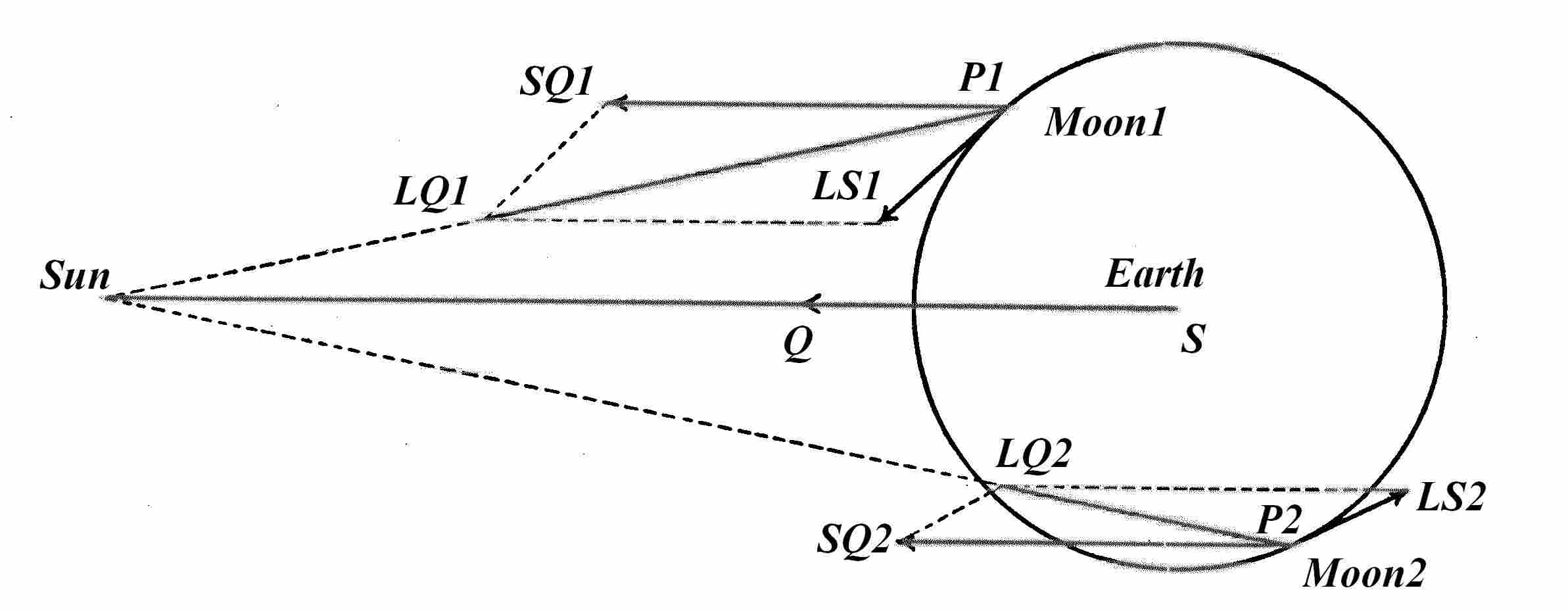 Illustration of solar perturbations on the Moon in 2 positions of its orbit around the Earth (own work; part of it adapted from a diagram in F R Moulton (1914) "Instroduction to Celstial Mechanics", which is a work too old to be in copyright). Category: gravitation.